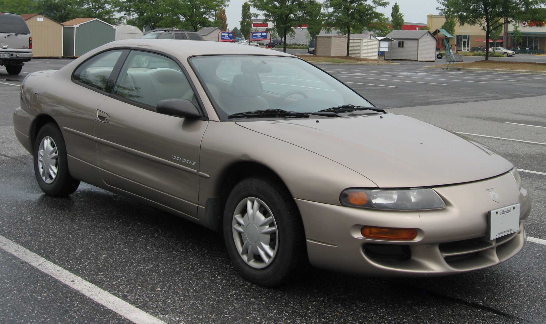 1995-2000 Dodge Avenger photographed in USA.